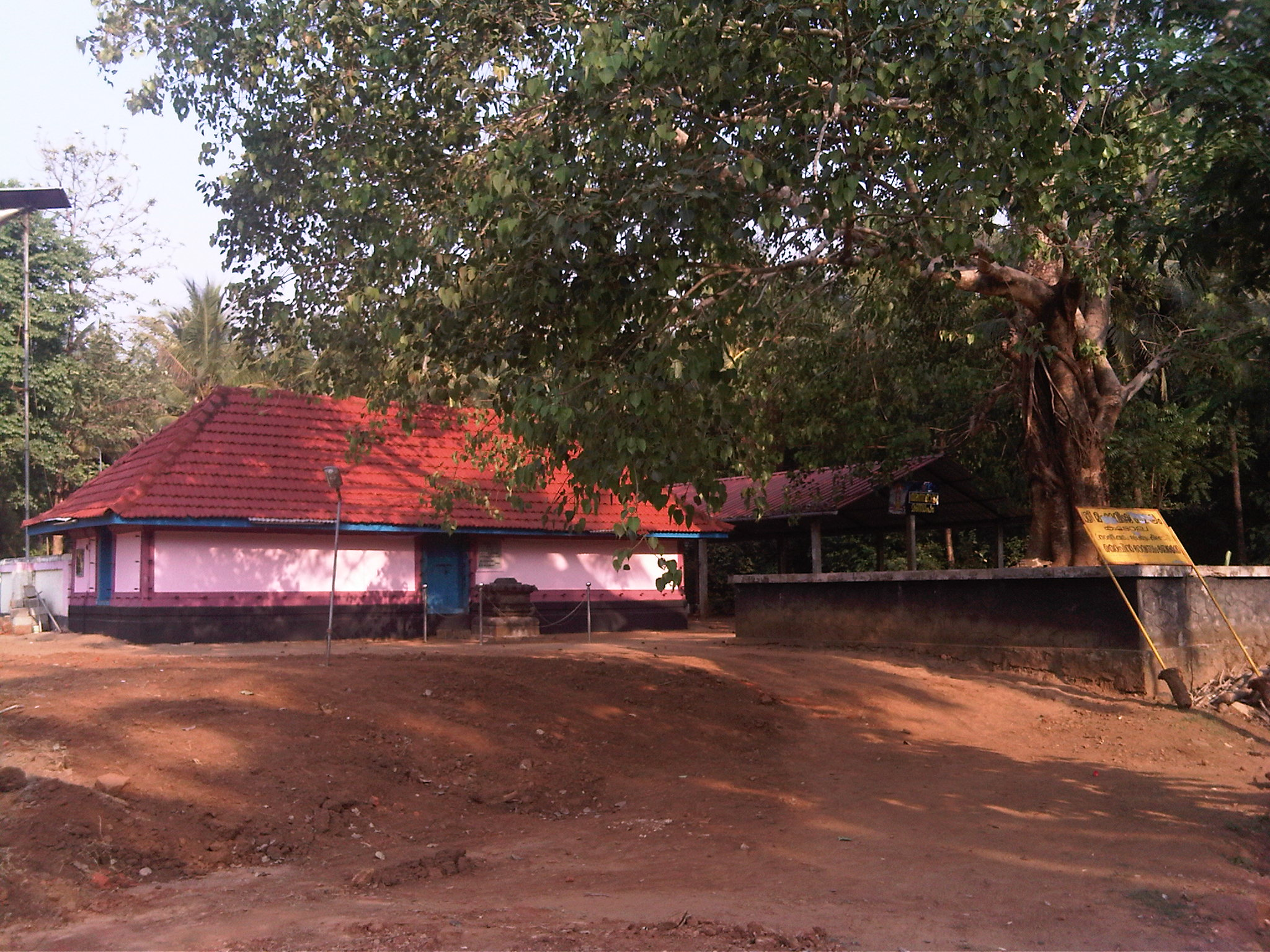 Koottala Sree Mahavishnu Temple